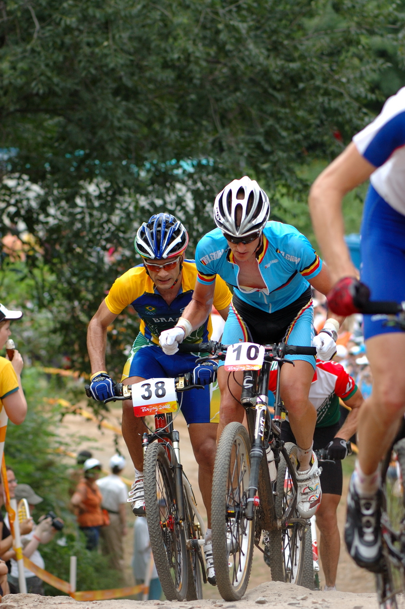 Cycling at the 2008 Summer Olympics – Men's cross-country - Roel Paulissen (Belgium - 10) and Rubens Valeriano Donizeti (Brazil - 38)